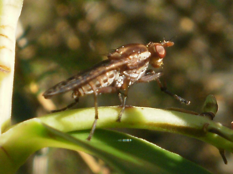 Sapromyza neozelandica, or brown striped litter fly at Pauatahanui Wildlife Reserve, Porirua, New Zealand. [MISIDENTIFICATION! This is Sapromyza neozelandica